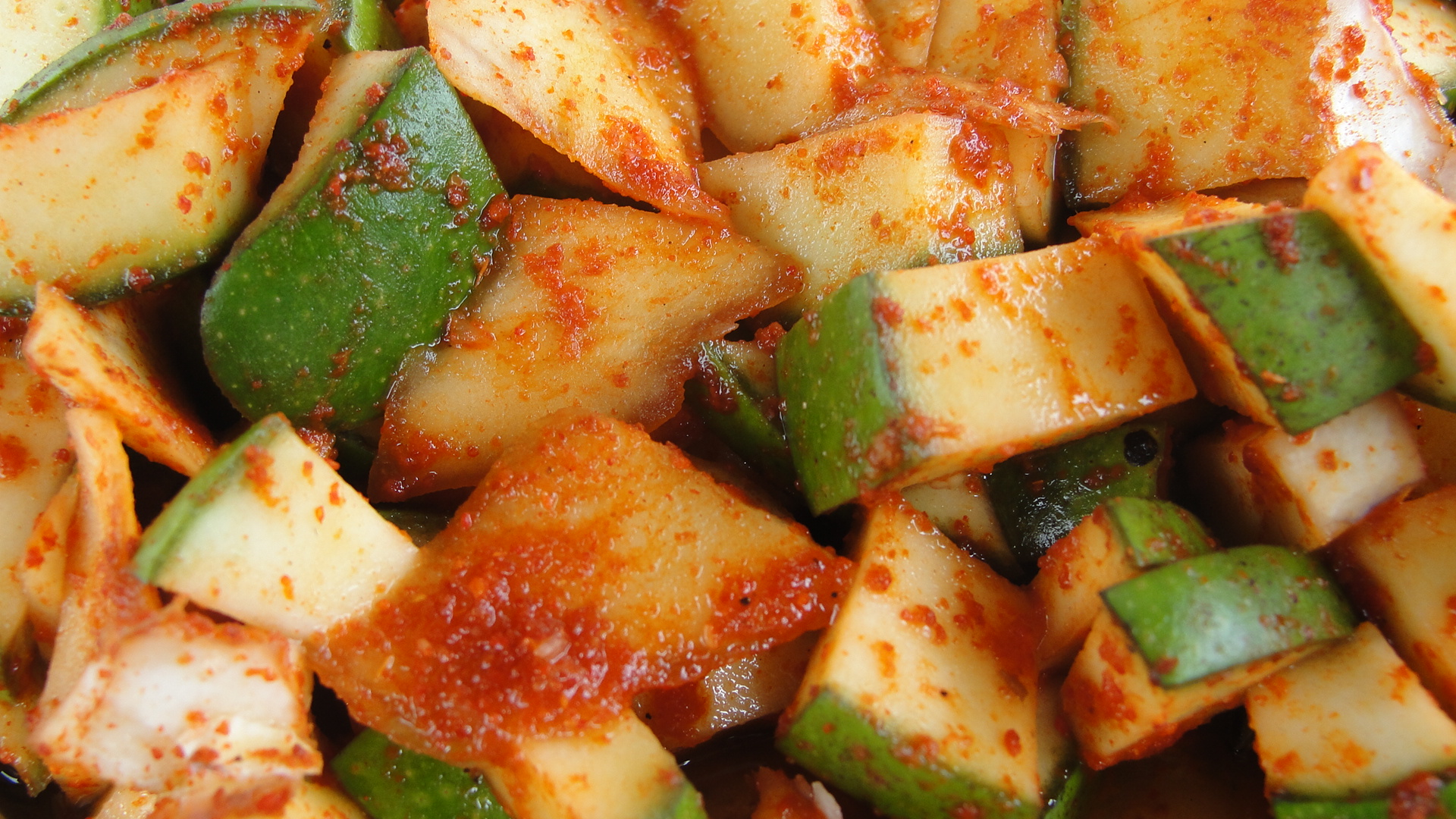 A mango dish. Mainly this is an side dish used with main meal.